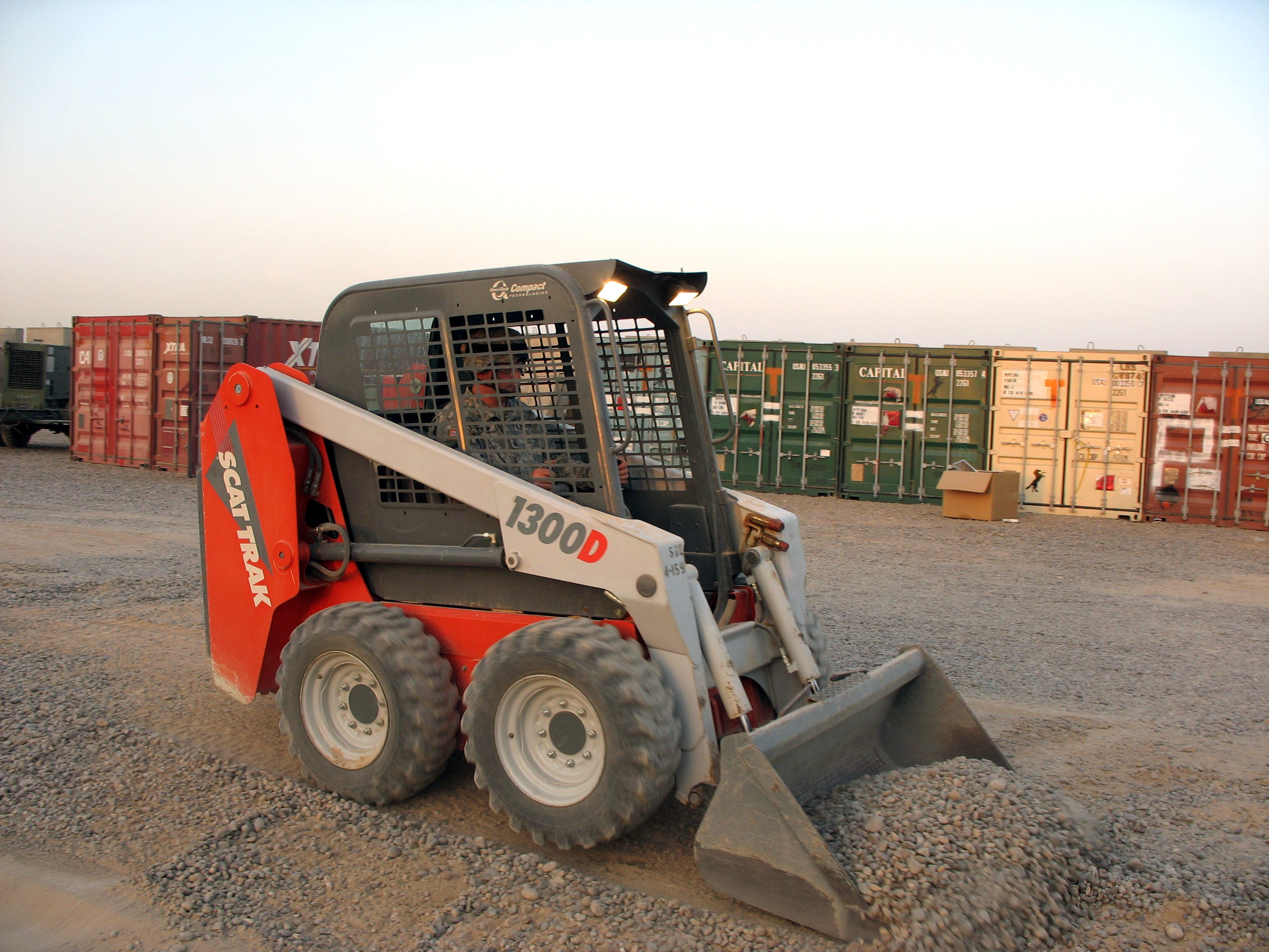 Scat Trak 1300D skid-steer loader at Logistical Support Area Anaconda, Baghdad Province, Iraq, Oct. 11th, 2006.